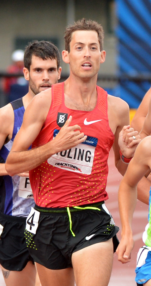 Daniel Huling running the 3,000-meter steeplechase at the 2016 U.S. Olympic Track and Field Team Trials at Hayward Field in Eugene, Oregon. U.S. Army photo by Tim Hipps, IMCOM Public Affairs